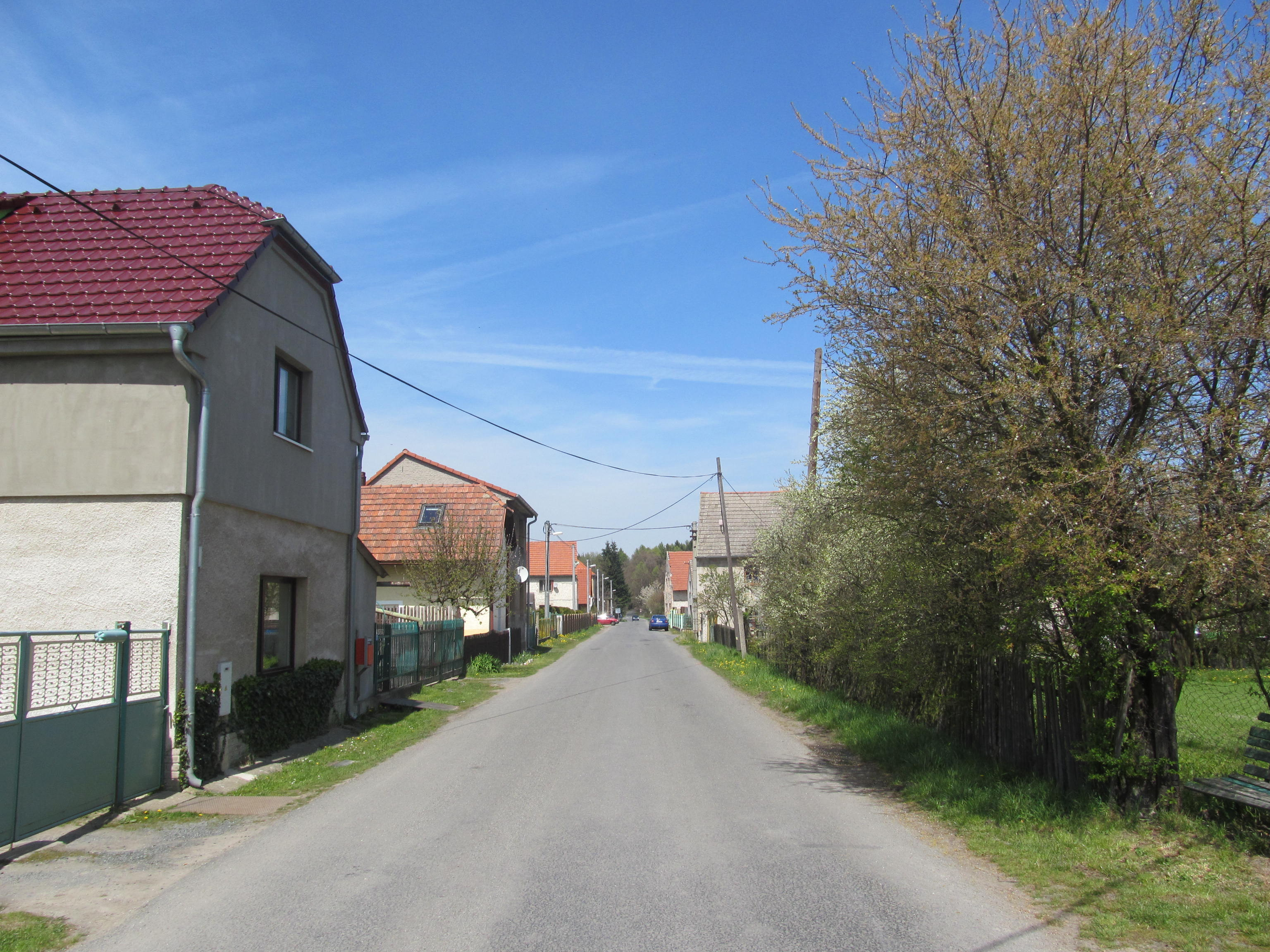 Road in Bor